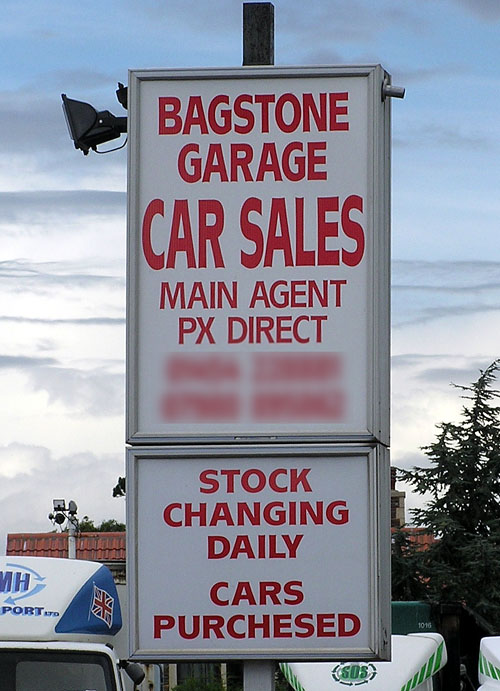 Misspelt sign at a garage at Bagstone, north of Bristol, England. Purchased has been misspelt as Purchesed. To save embarrassment the telephone number has been blurred. Taken by Adrian Pingstone in August 2004 and released to the public domain.